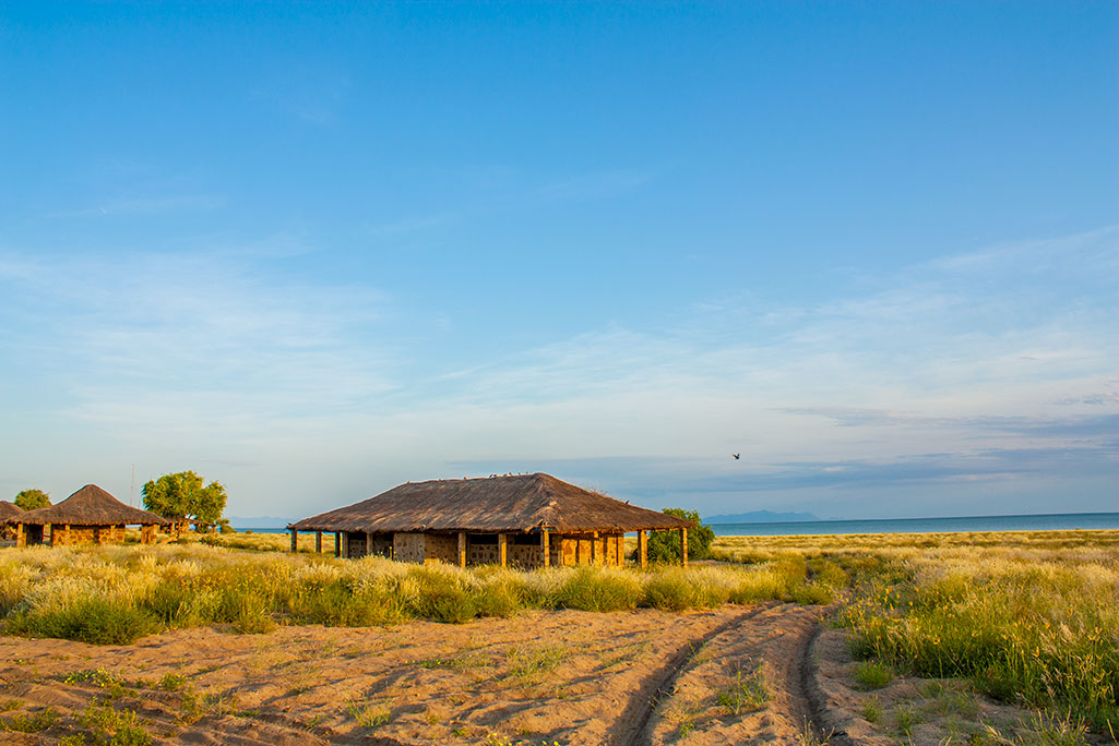 The headquarters of the National Museums of Kenya at Koobi Fora, Sibiloi National Park.